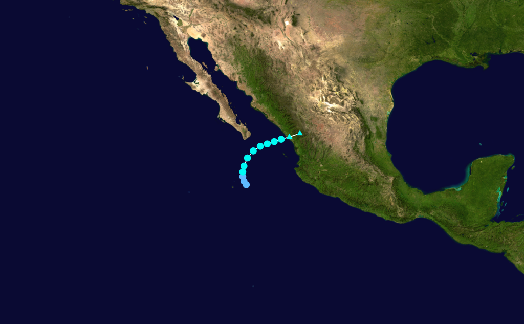 Tropical Storm Hazel (1965) track. Uses the color scheme from the Saffir-Simpson Hurricane Scale.